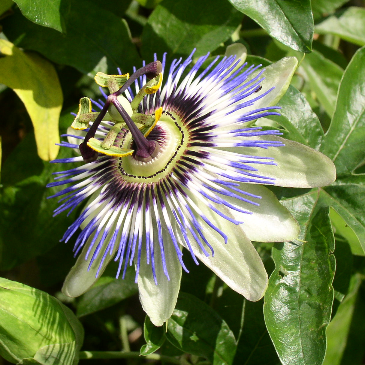 Passion flower